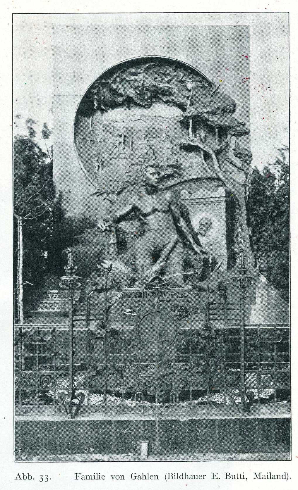 Grave of family von Gahlen, by Enrico Butti, Milano